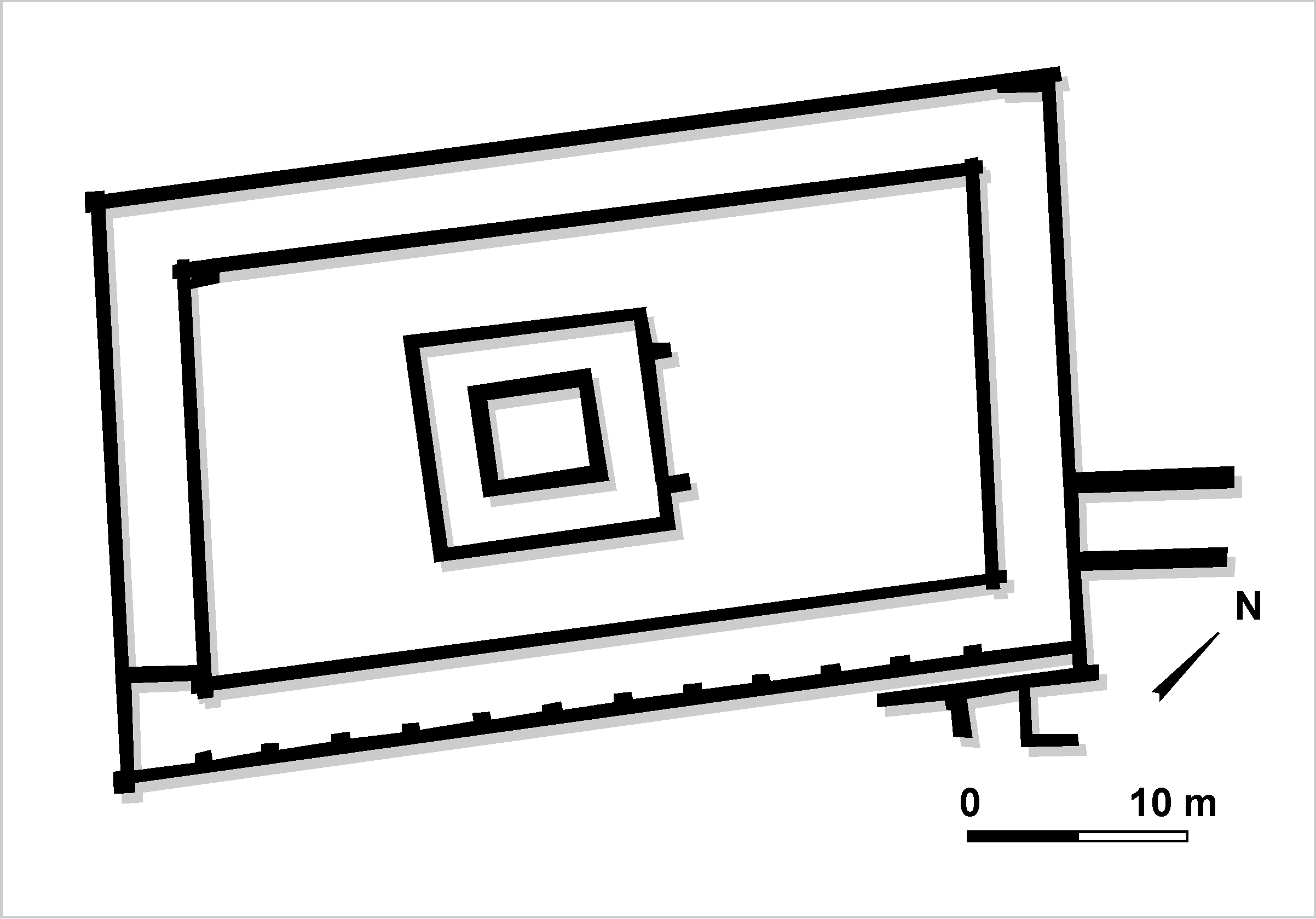 plan of a Gallo-Roman temple, excavated at the Colonia Ulpia Traiana